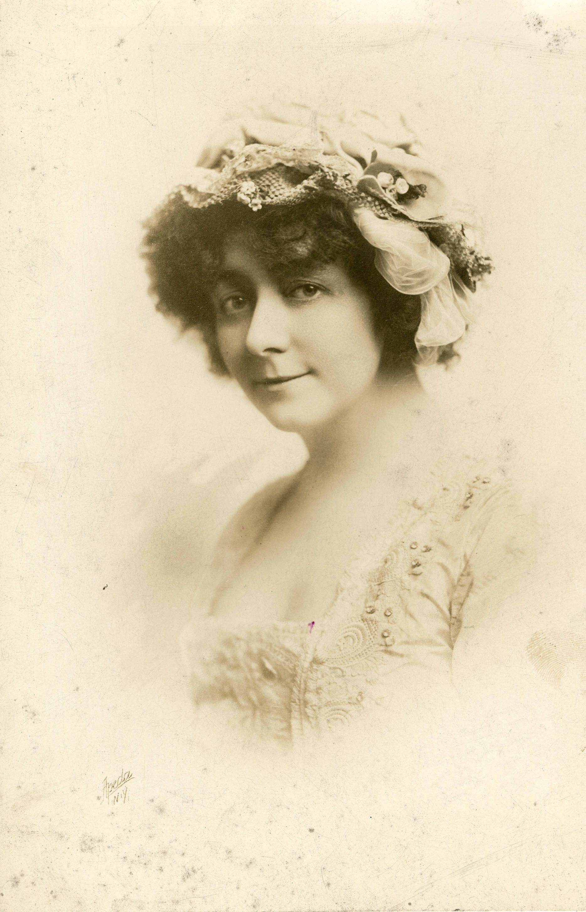 Cecilia Loftus, vaudeville entertainer Subjects: actresses